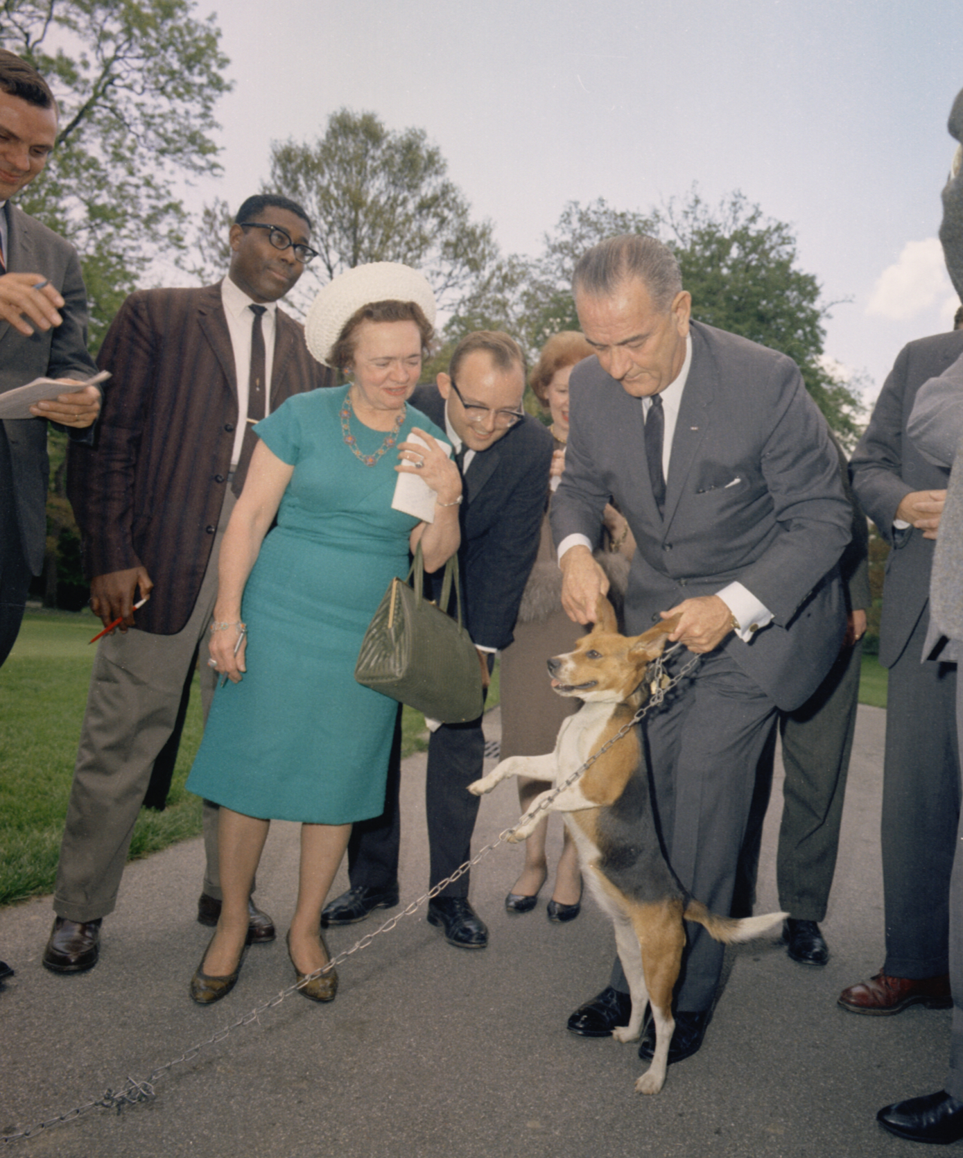 U.S. President Lyndon Johnson caused a storm of protest when he lifted his dog "Him" by his ears. May 4, 1964